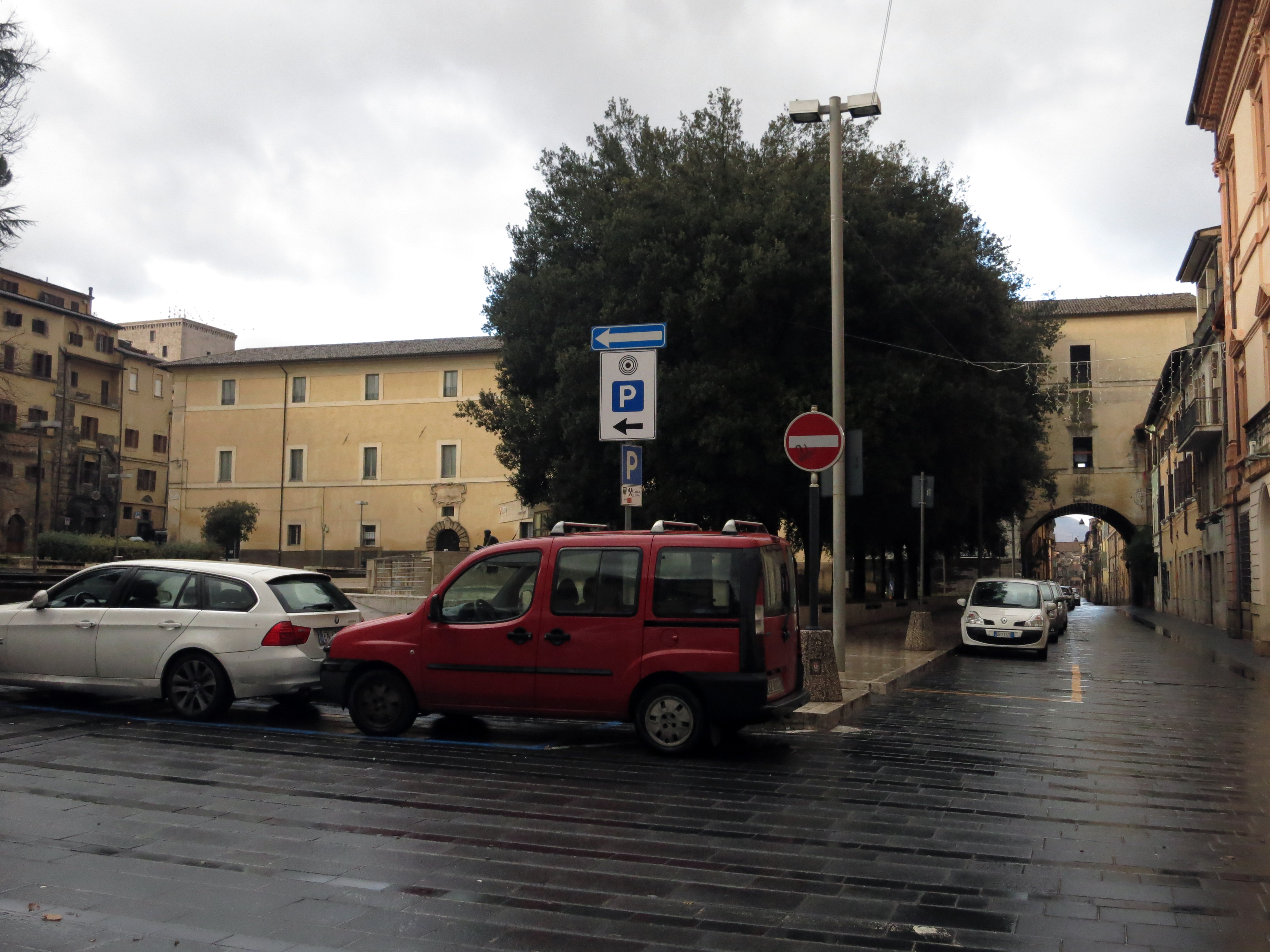 Seminary Palace - Rieti, Lazio, Italy